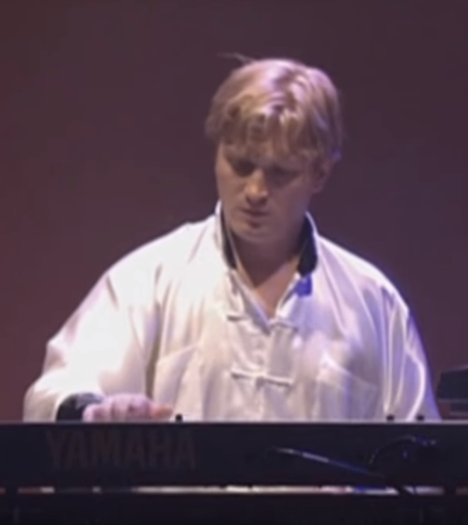 Igor Khoroshev performing 'And You And I' with Yes at the House of Blues in 1999.